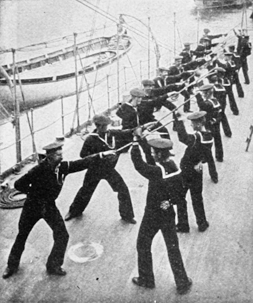 Single Stick Exercise